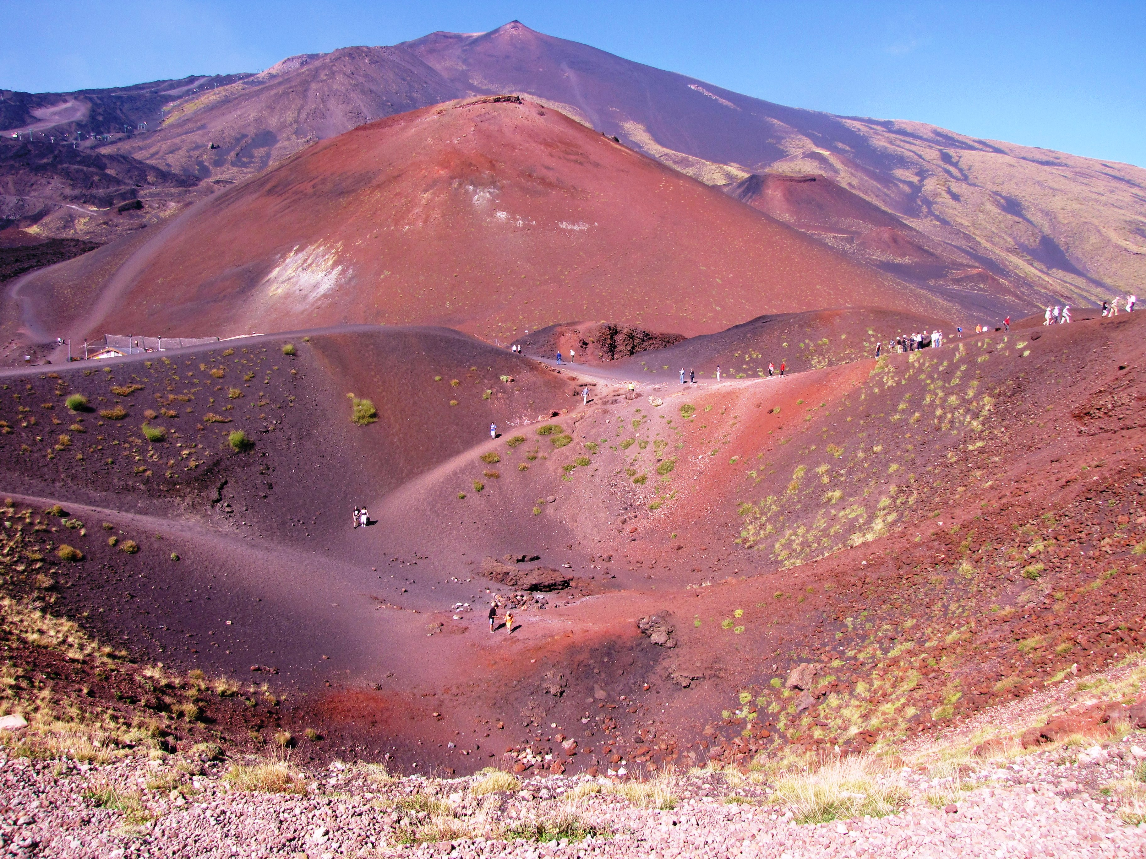 crater of Mount Etna,Sicily during eruptions of 2001-2002